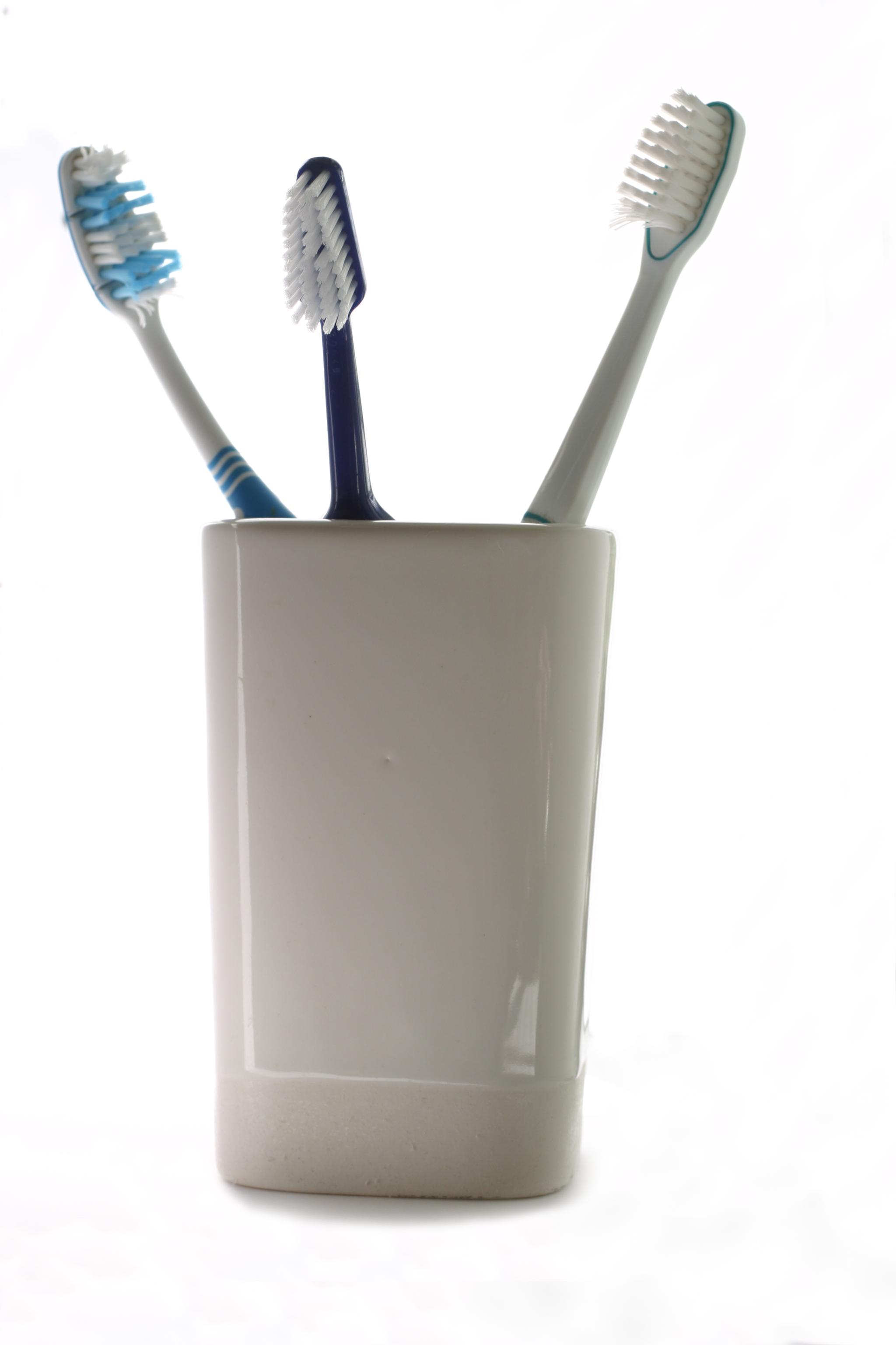 Three toothbrushes